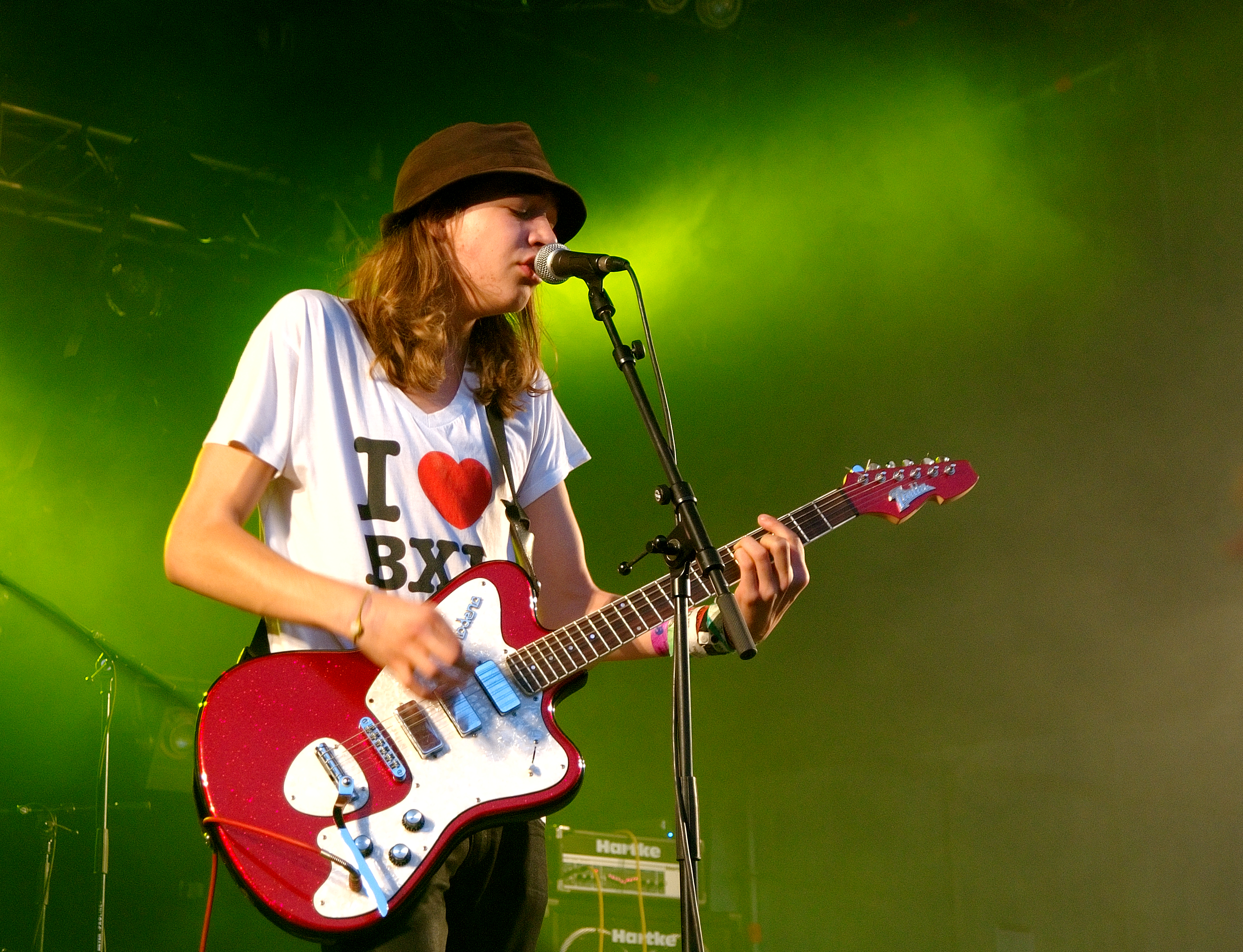 Freaky Age a Belgian four-piece Indie-rockband from Ternat Belgium